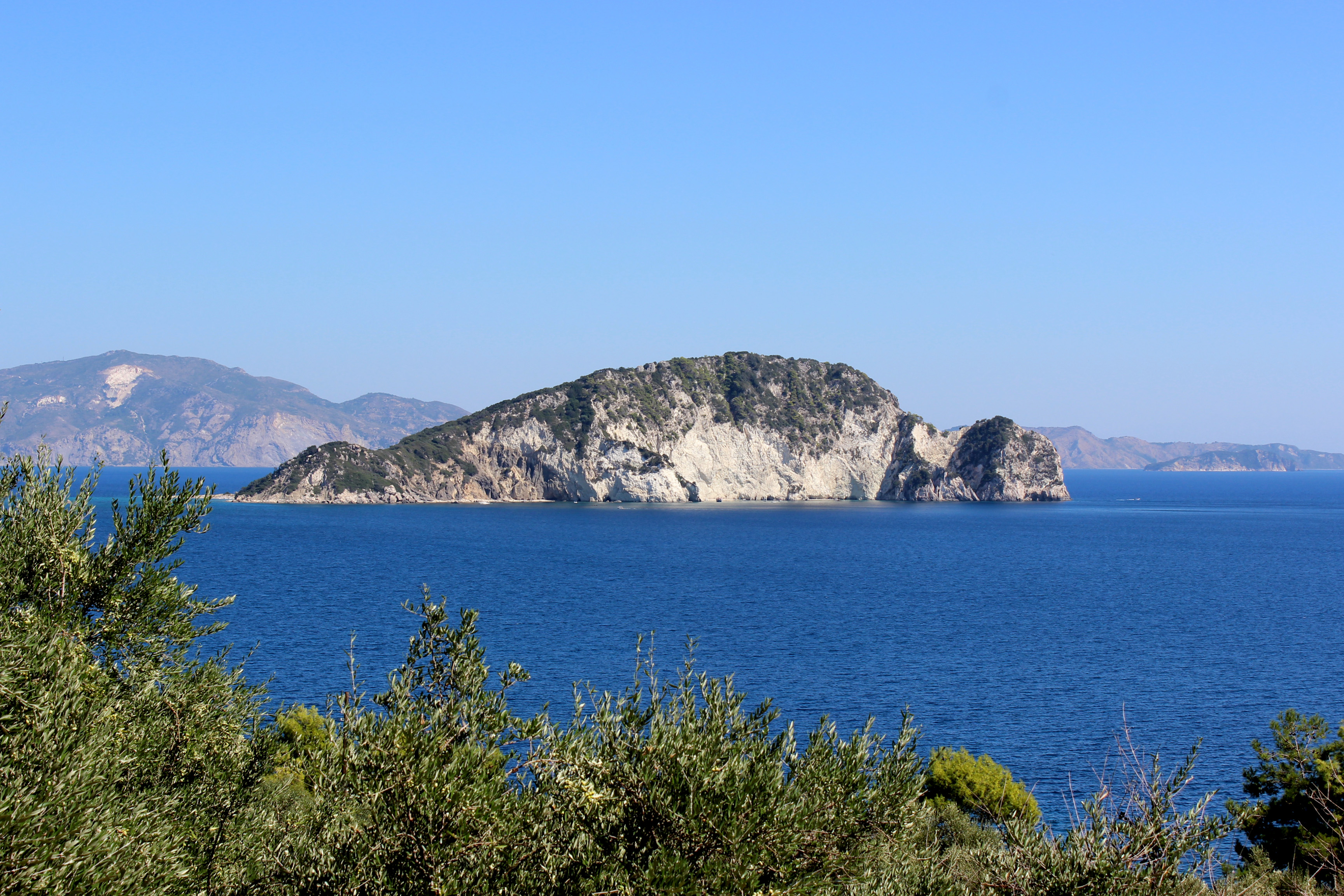 Marathonisi island, Zakynthos, Greece